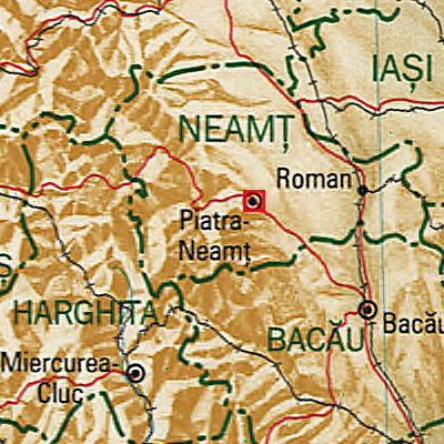 Map of Piatra Neamț Municipality, Romania.